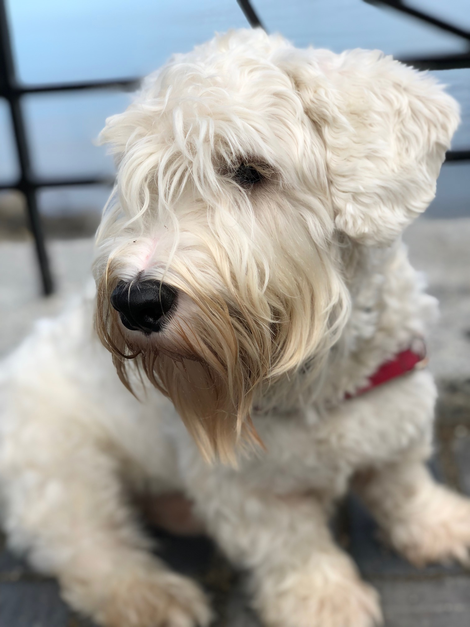 close up photograph of a Sealyham Terrier